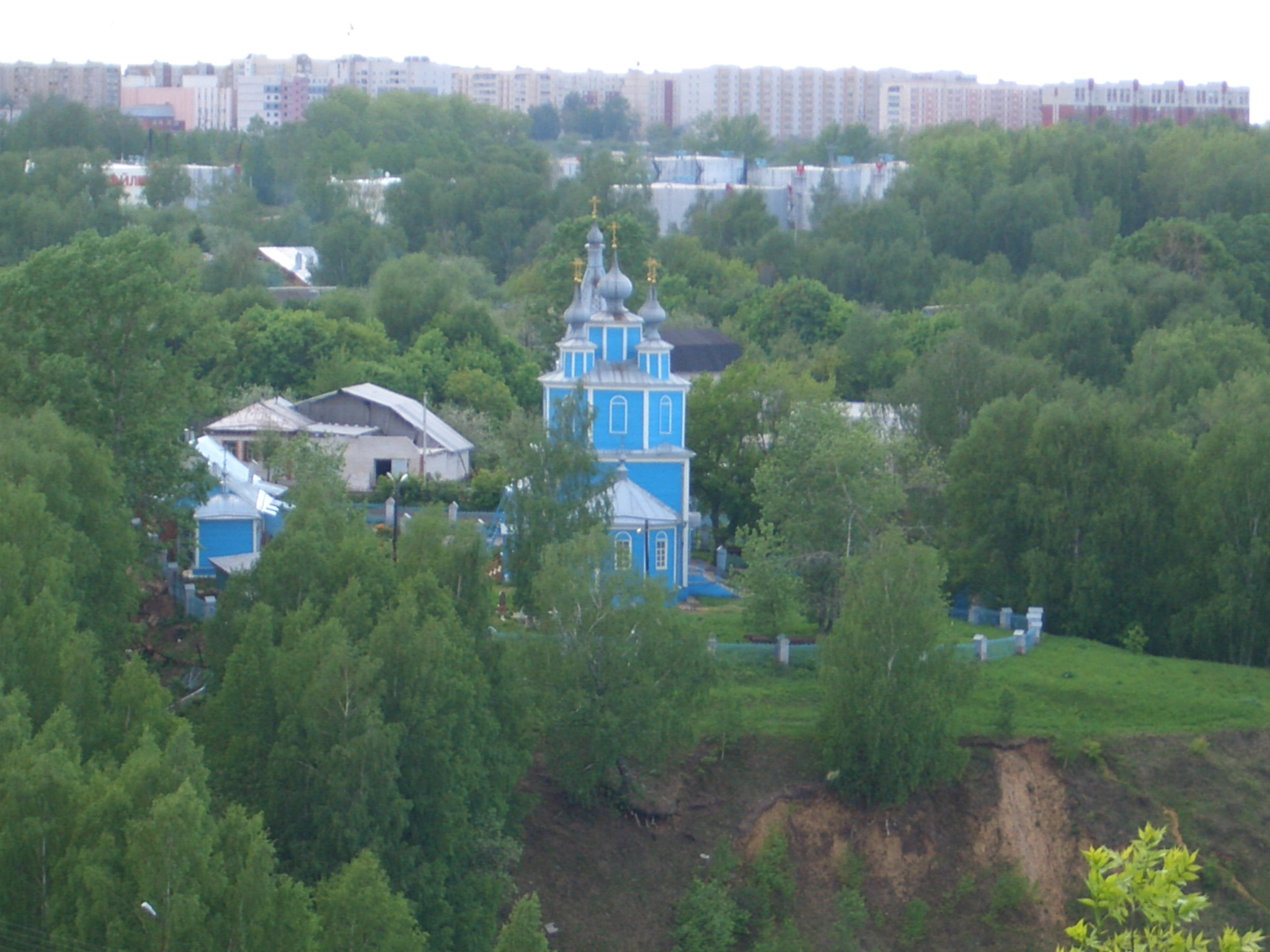 Church of Our Lady of Kazan, in the village of Veliky Vrag near Kstovo